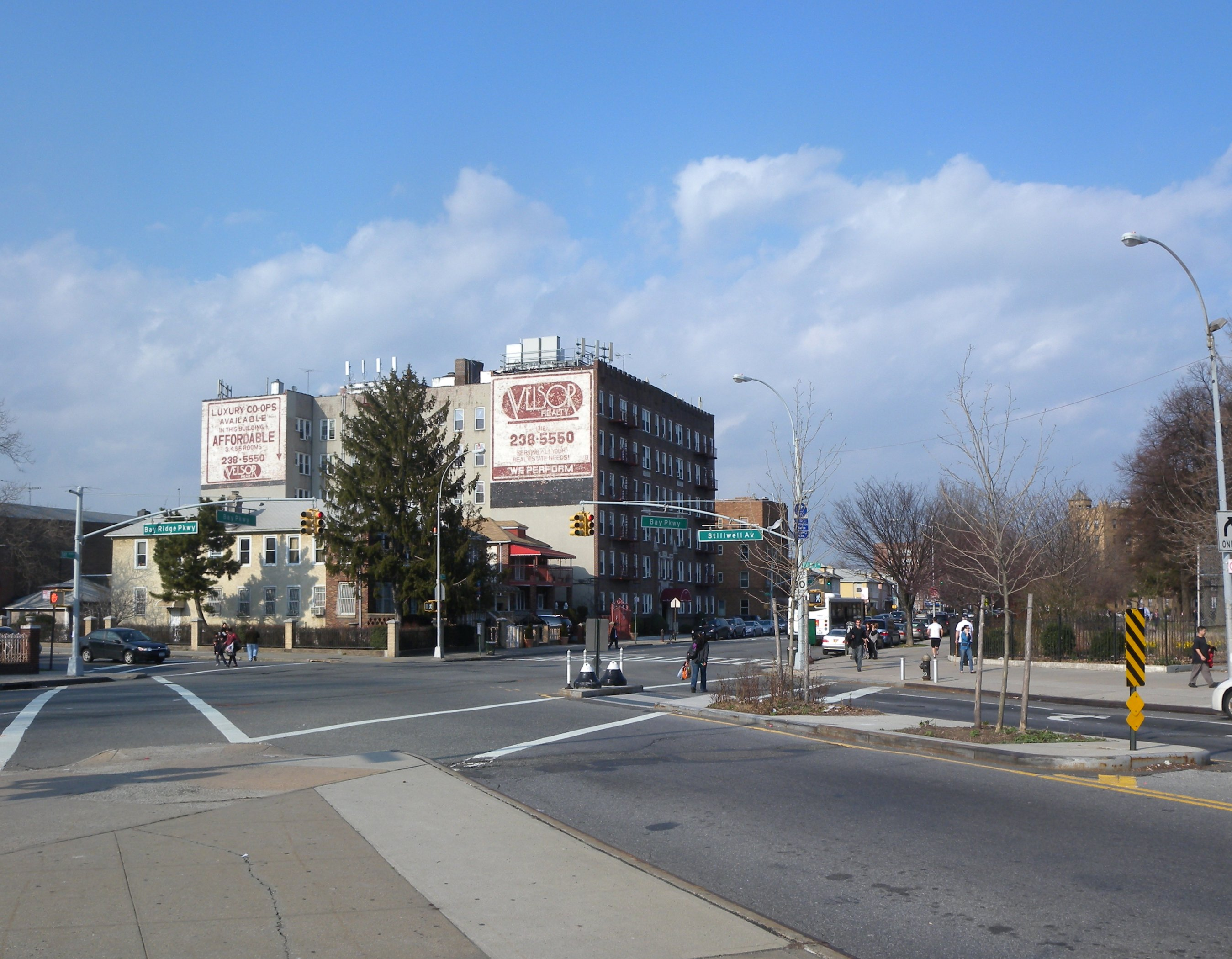 Looking north along the end of Stillwell Avenue at Bay Parkway on a mostly sunny afternoon.